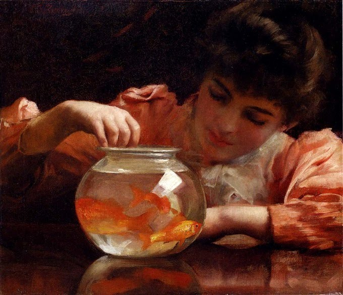 Idle hours